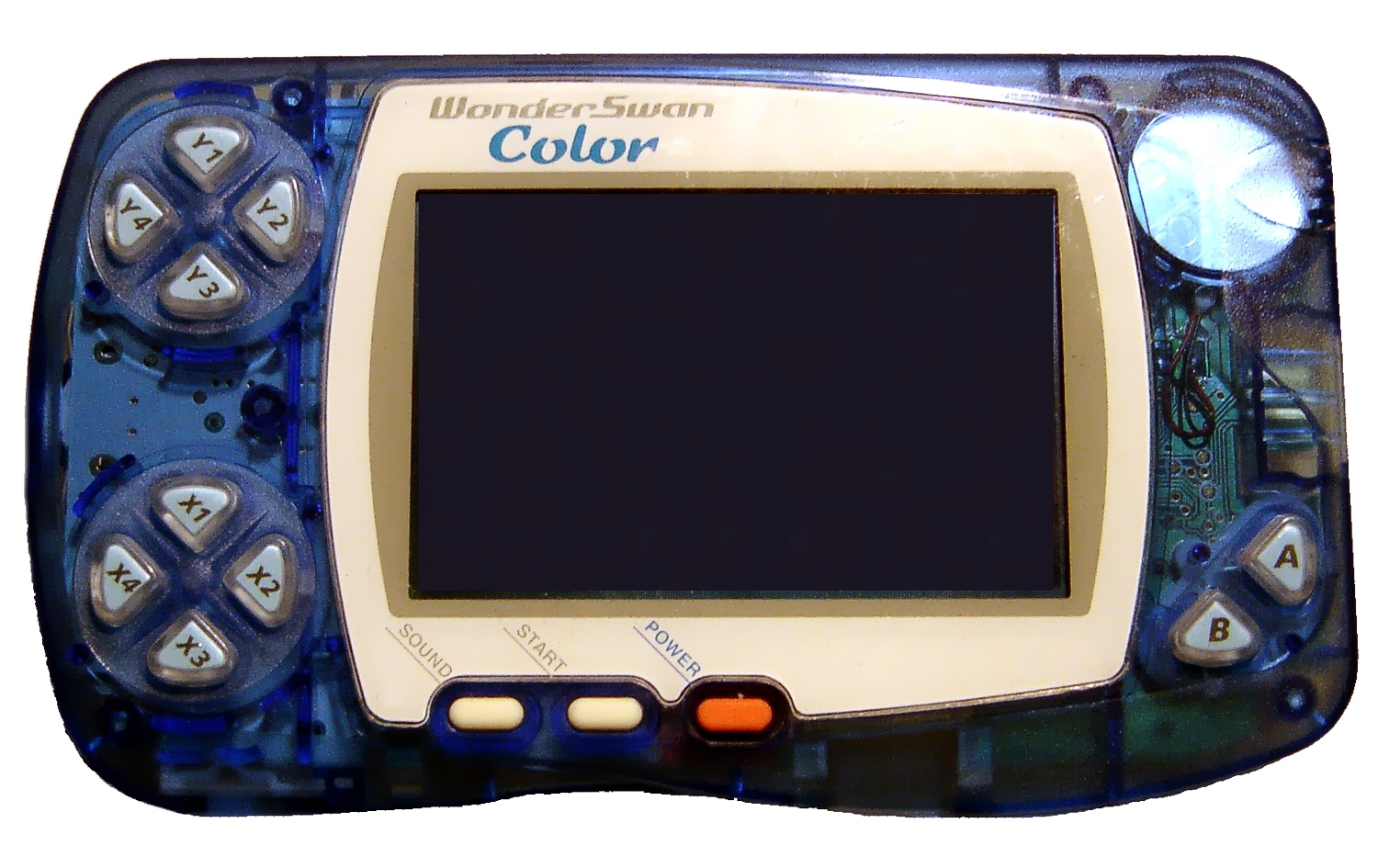 A Wonderswan Color handheld.